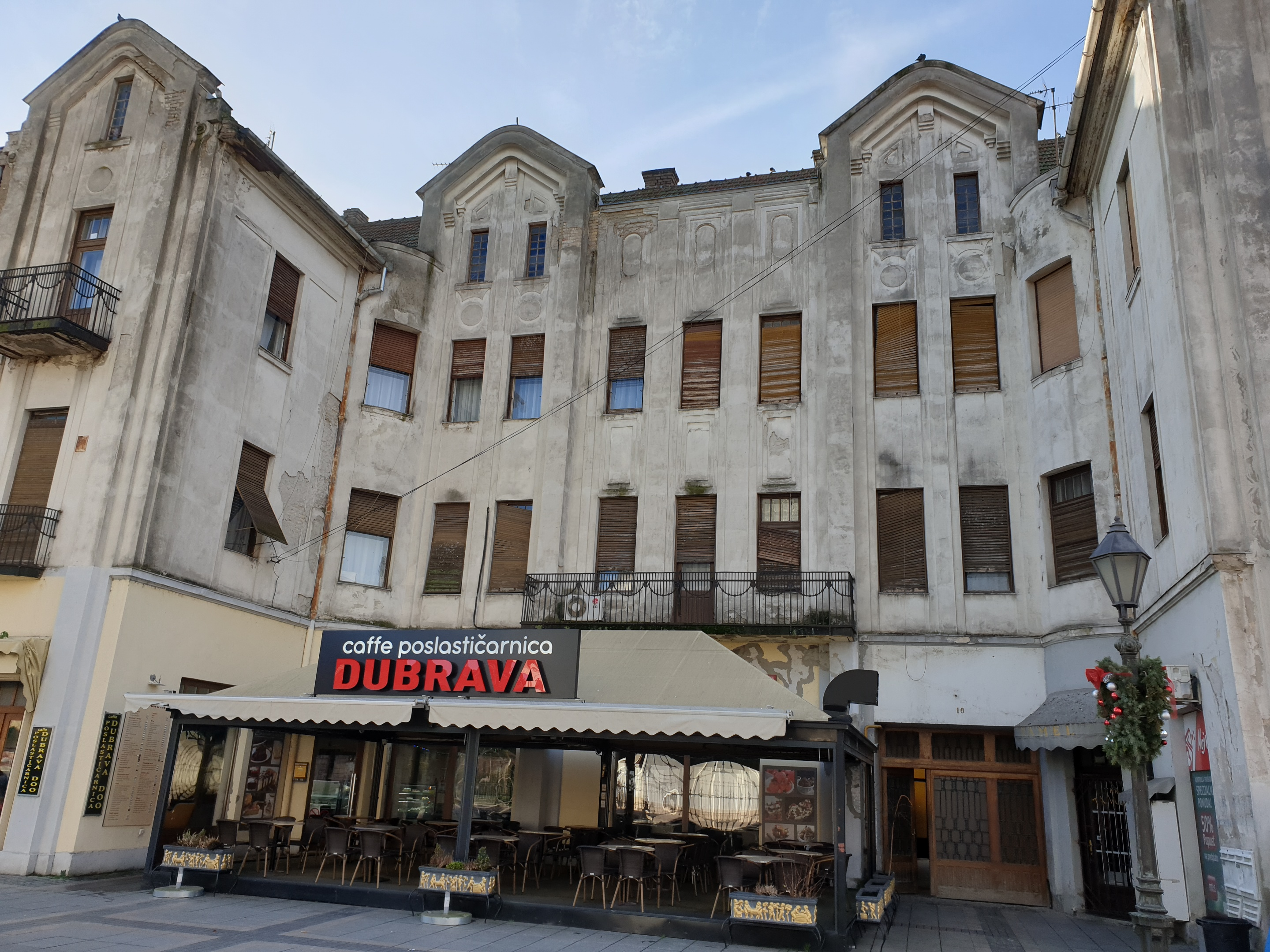 Konjovićeva palata